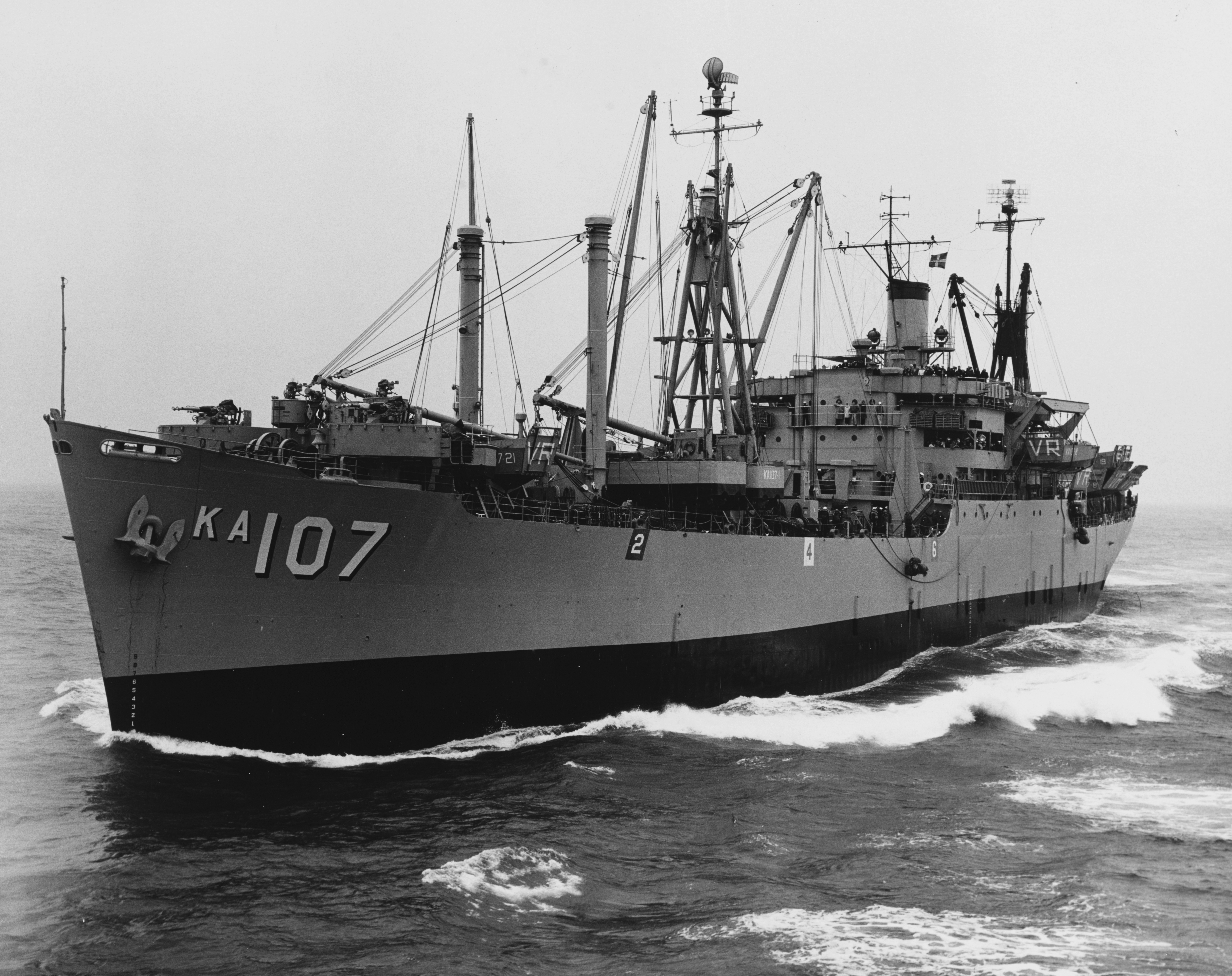 The U.S. Navy attack transport USS Vermilion (AKA-107) underway at sea, circa the 1950s.